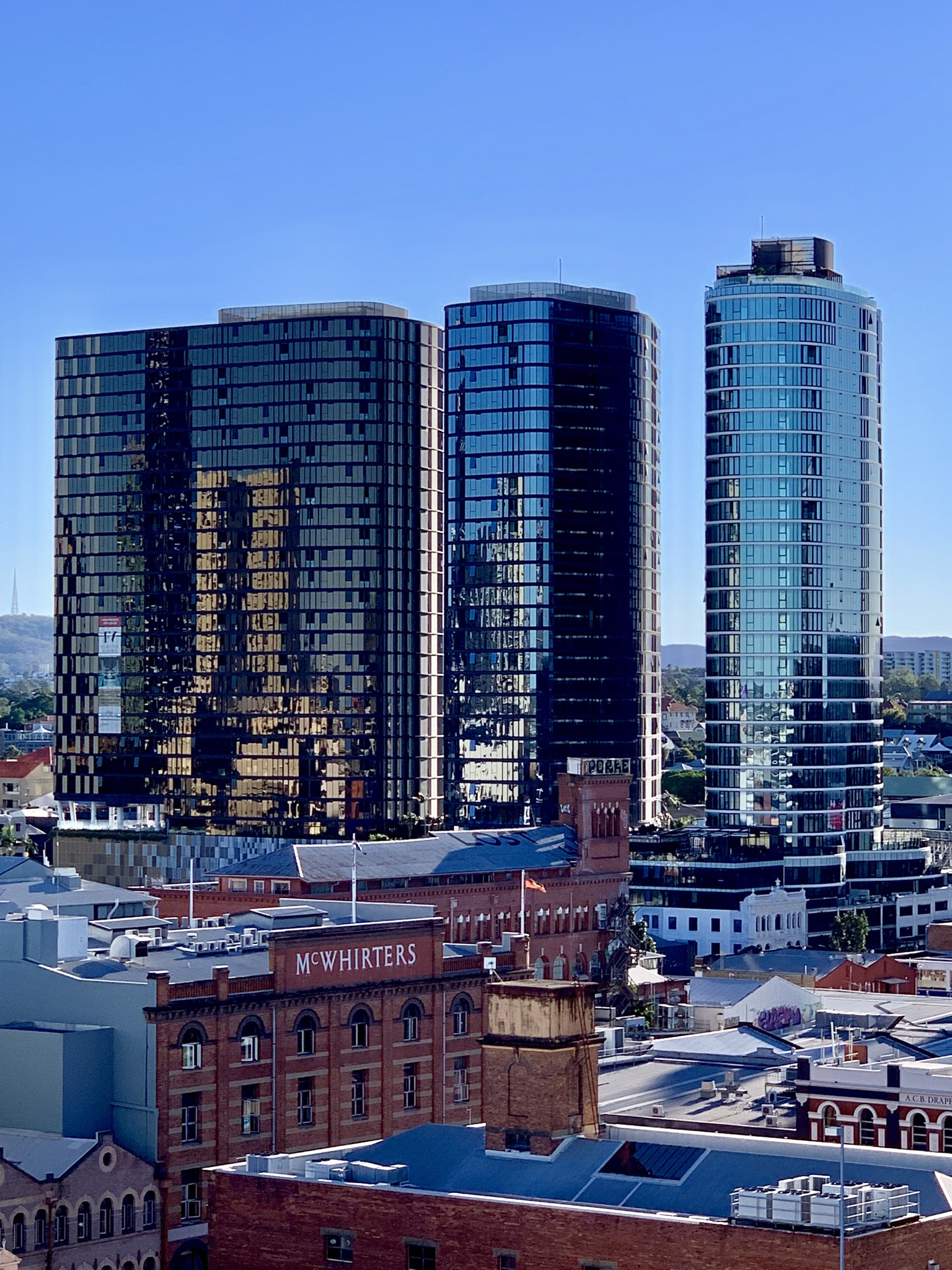 FV by Peppers, Fortiude Valley seen from Eleven Rooftop Bar, Fortiude Valley, Brisbane